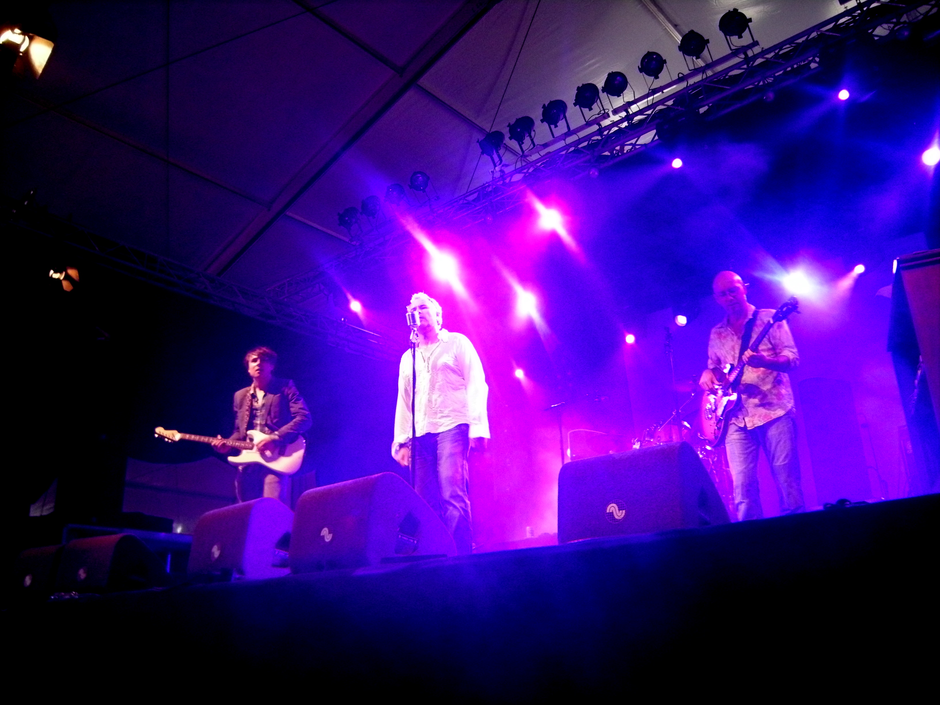 King Mo at ZPF festival 2009